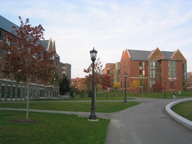 Taken myself